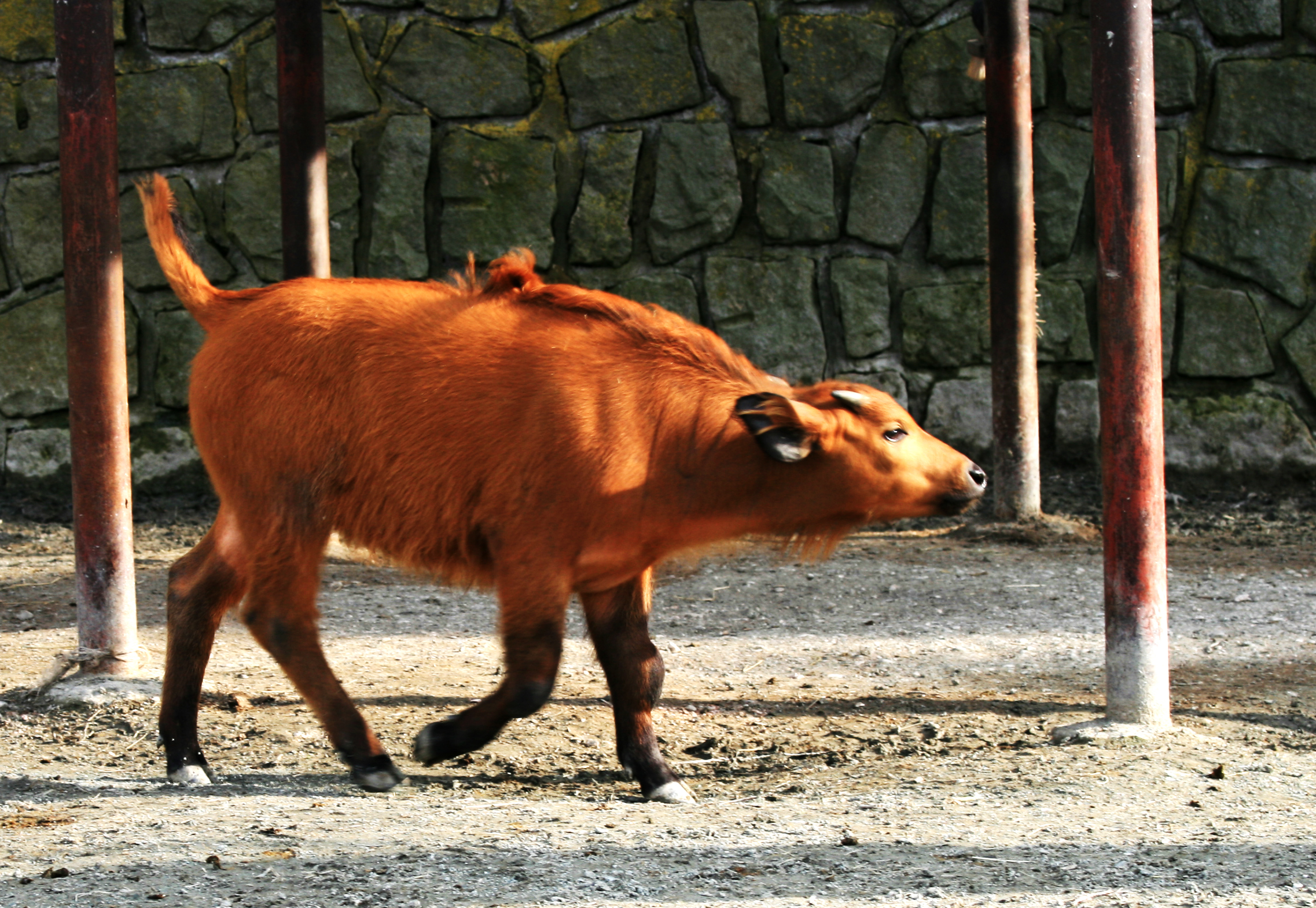 Young African Forest Buffalo, Syncerus caffer nanus in ZOO Dvůr Králové, Czech Republic